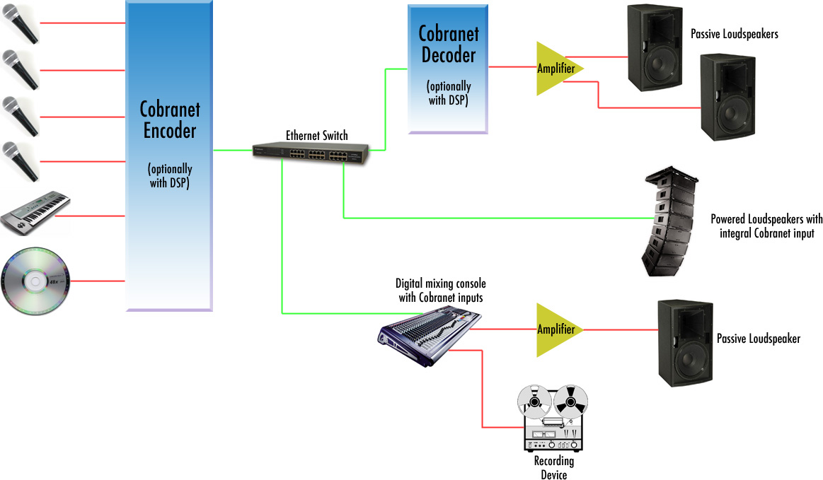 This image shows a typical block diagram of an audio system employing Cobranet technology. Red lines indicate analog audio signals, and green lines indicate standard Ethernet signals. This image shows a typical block diagram of an audio system employing Cobranet technology. Red lines indicate analog audio signals, and green lines indicate standard Ethernet signals.